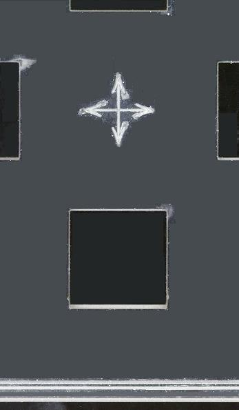 Laser engraved and laser cut Plexiglas